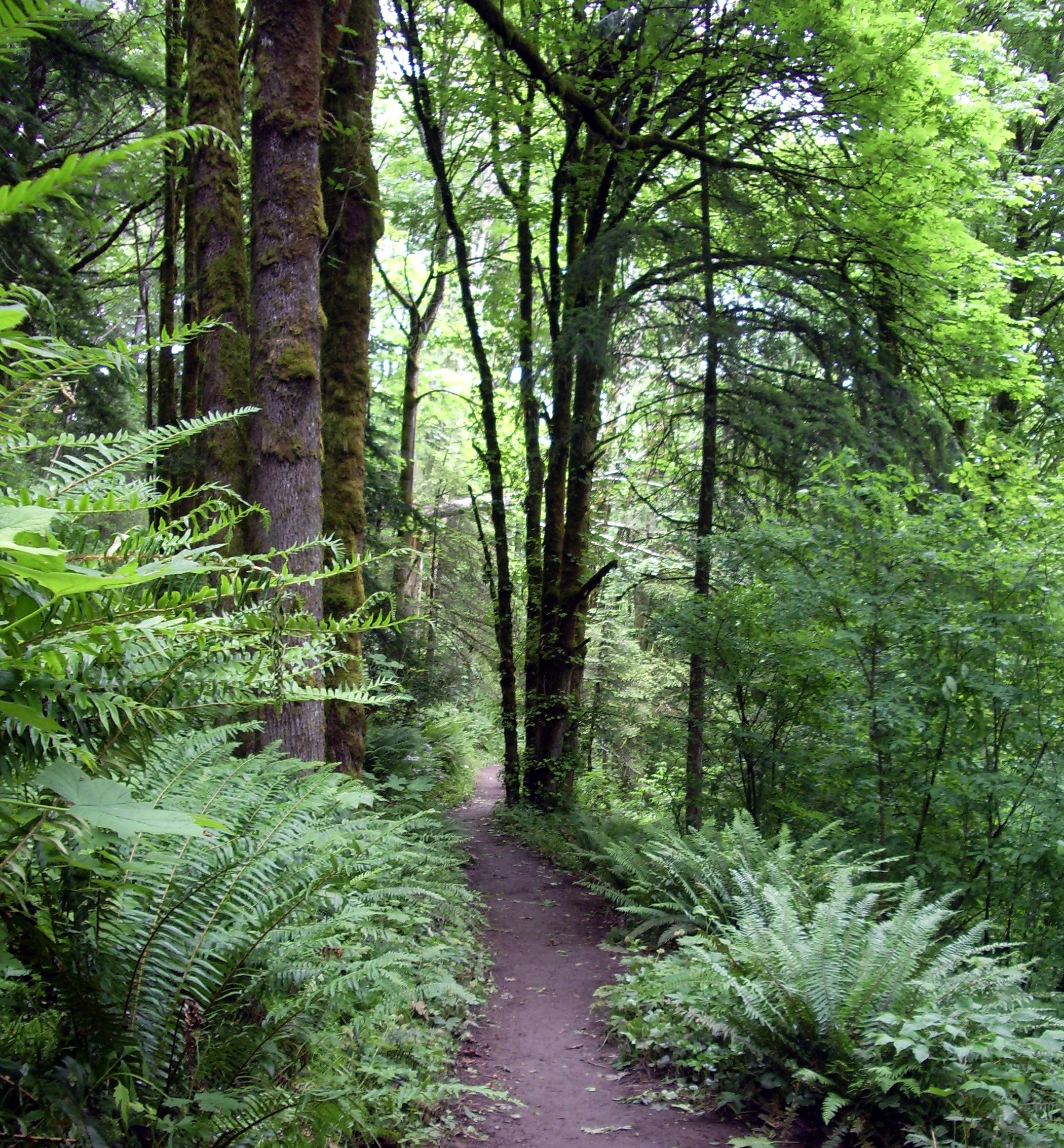 Wildwood Trail in Forest Park on a rainy spring day. Though not obvious, the trail is gradually sloping downward further away, even though there was some attempt to keep the grade of the Wildwood Trail close to level, it simply isn't practical in the hilly terrain. Curves are typical at every creek's valley to approximate a near level elevation profile. This section is believed to be primarily old growth forest containing a mix of indigenous Douglas-fir, western hemlock and western red cedar, with some introduced species such as Oak, Alder, Holly, and others. Ferns are plentiful throughout Forest Park. Here Sword fern dominate nearby with Maidenhair and Bracken varieties near the trees at center.